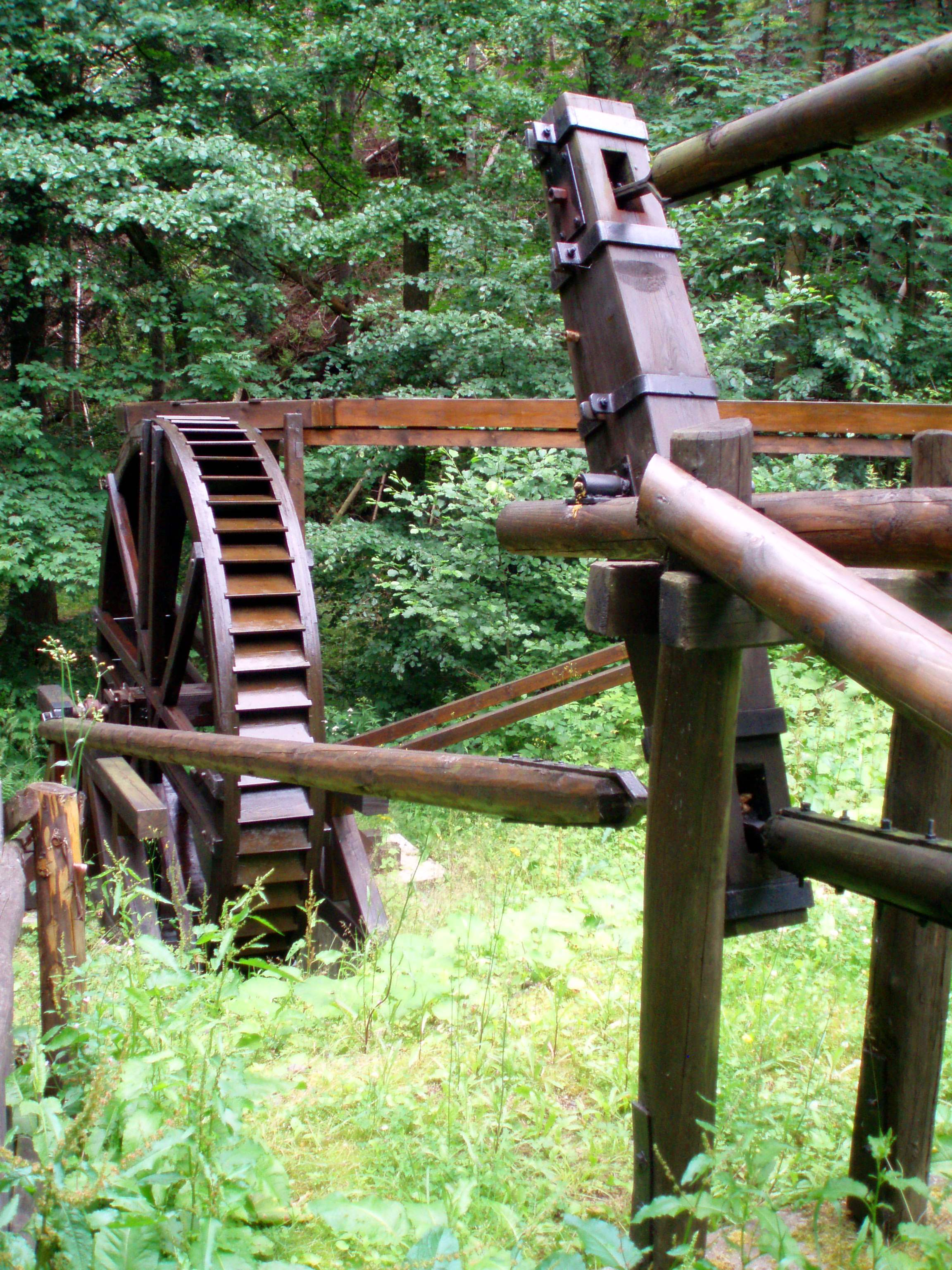 Water wheel and flatrod system in the Thumkuhlenthal, Germany